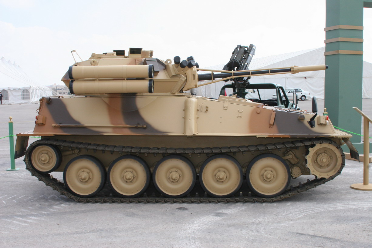 Scimitar upgraded by KADDB